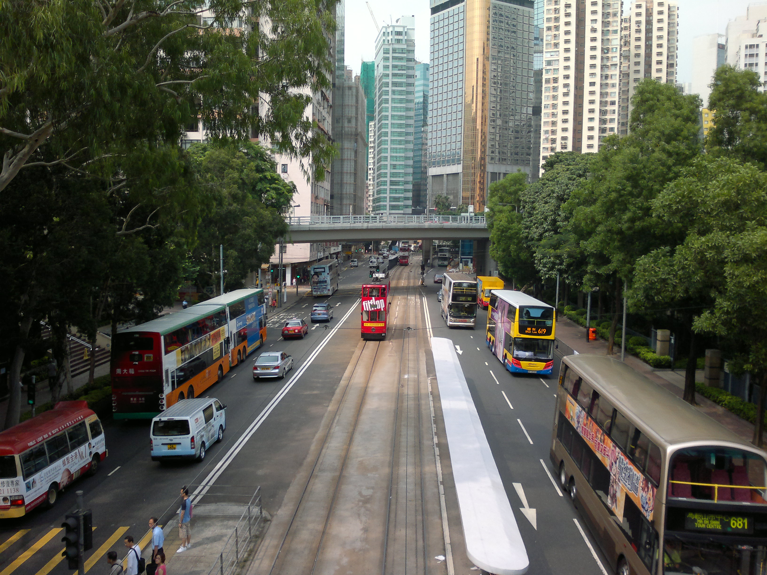 Causeway Road towards Causeway Bay